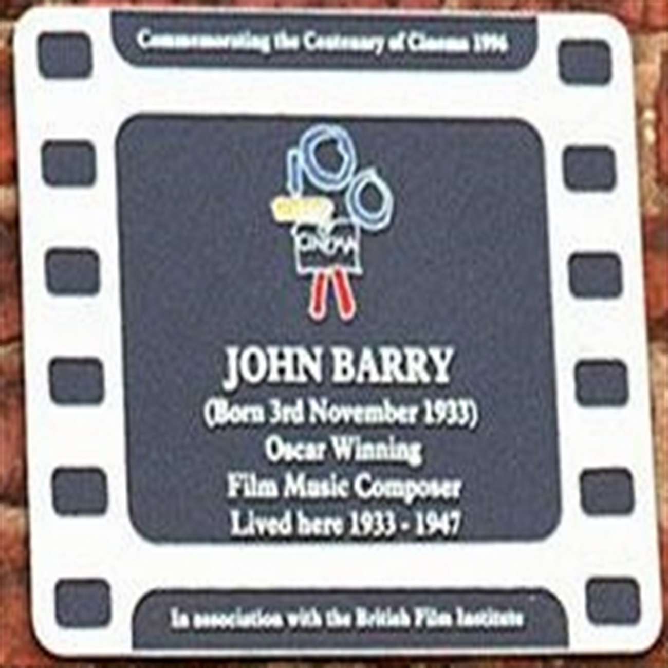 A British Film Institute plaque